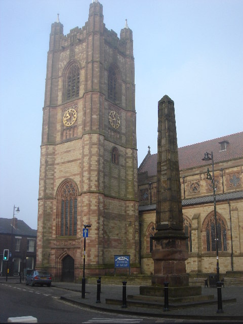 St. John, Atherton and obelisk